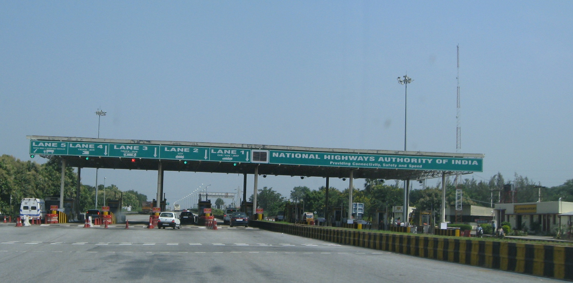 Pallikonda User Fee Booth.